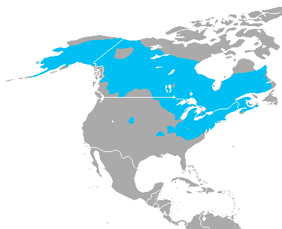 Derived from File:Rana-sylvatica Range.gif, normalized with the other distribution maps.